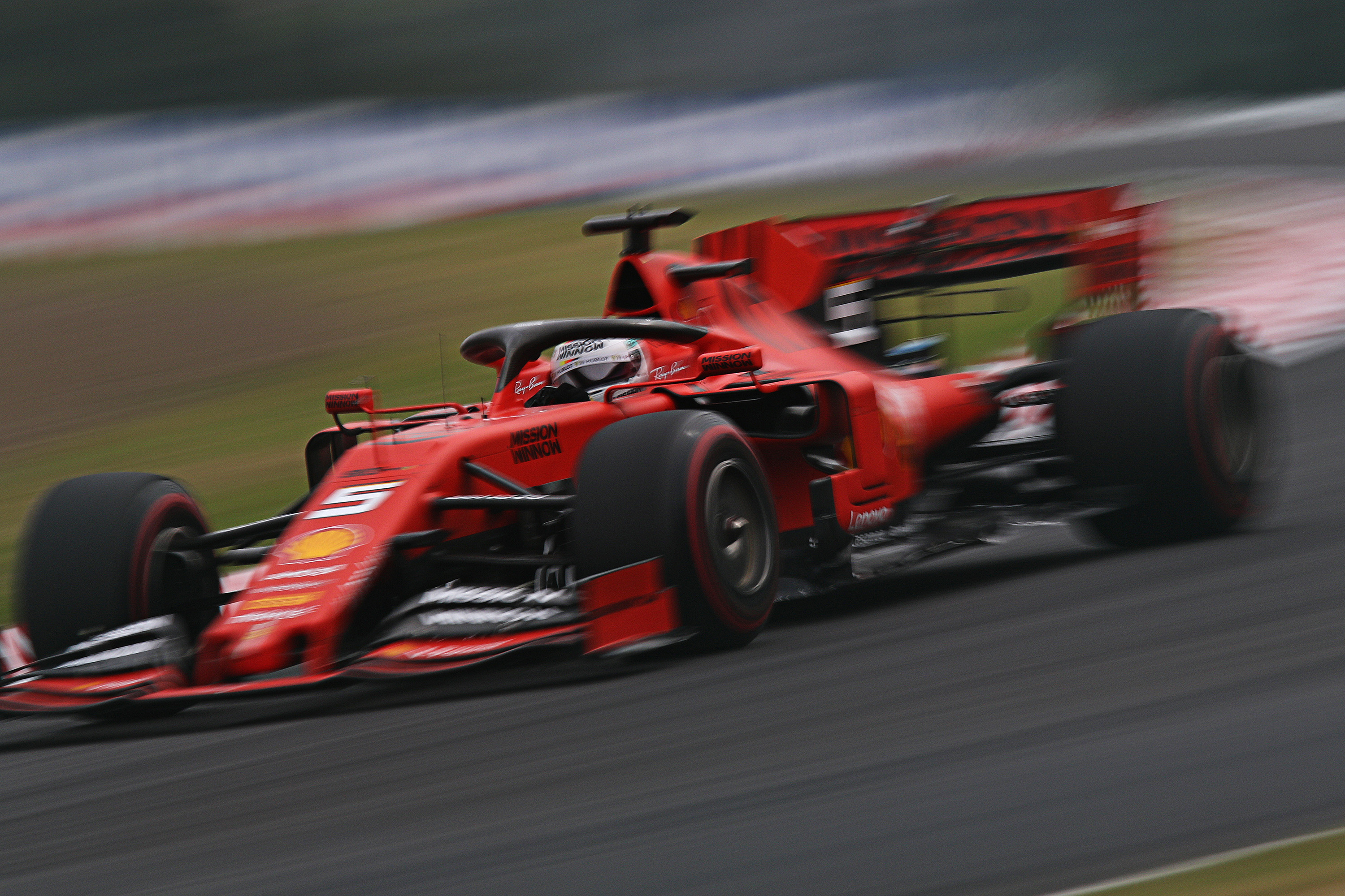 2019.10.11 F1 Rd.17 JapaneseGP FP1 Suzuka Circuit Scuderia Ferrari 5 Sebastian Vettel [7D2_5215ks]